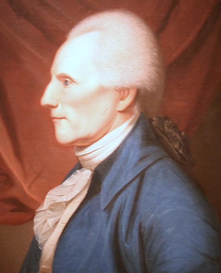 Oil on canvas painting of Richard Henry Lee; size without frame 75.6×63.3 cm.